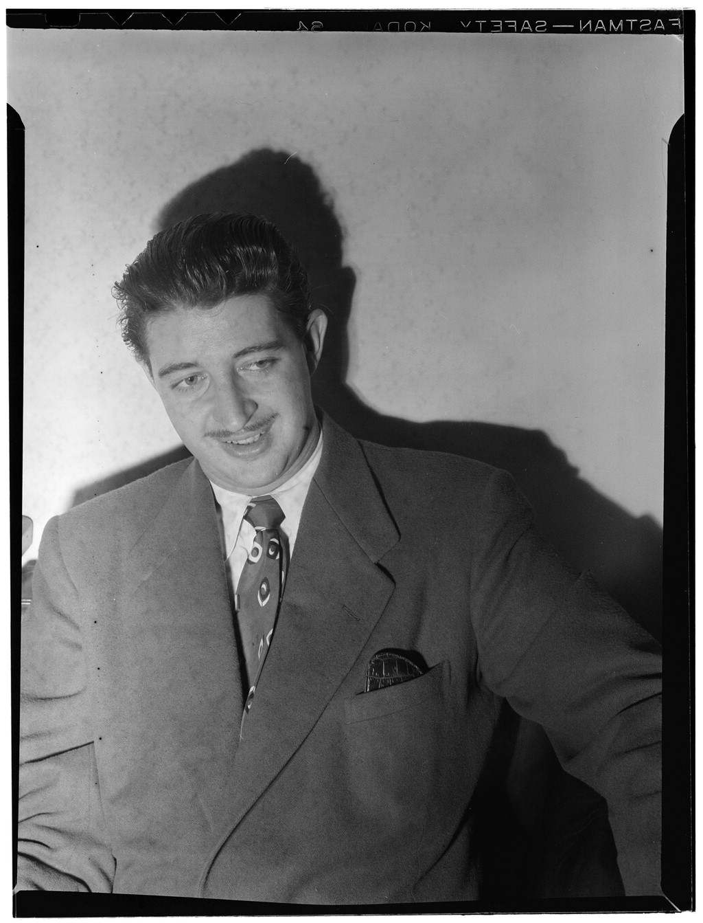 Gottlieb, William P., 1917-, photographer. [Portrait of Johnny Bothwell, between 1938 and 1948] 1 negative : b&w ; 3 1/4 x 4 1/4 in. Notes: Gottlieb Collection Assignment No. 136 Purchase William P. Gottlieb Forms part of: William P. Gottlieb Collection (Library of Congress). Subjects: Bothwell, Johnny Jazz musicians--1930-1950. Saxophonists--1930-1950. Format: Portrait photographs--1930-1950. Film negatives--1930-1950. Rights Info: Mr. Gottlieb has dedicated these works to the public domain, but rights of privacy and publicity may apply. Repository: (negative) Library of Congress, Prints & Photographs Division, Washington D.C. 20540 USA, Part Of: William P. Gottlieb Collection (DLC) 99-401005 General information about the Gottlieb Collection is available at Persistent URL: Call Number: LC-GLB13- 0993 This work is from the William P. Gottlieb collection at the Library of Congress. Rights and restrictions.In accordance with the wishes of William Gottlieb, the photographs in this collection entered into the public domain on February 16, 2010.